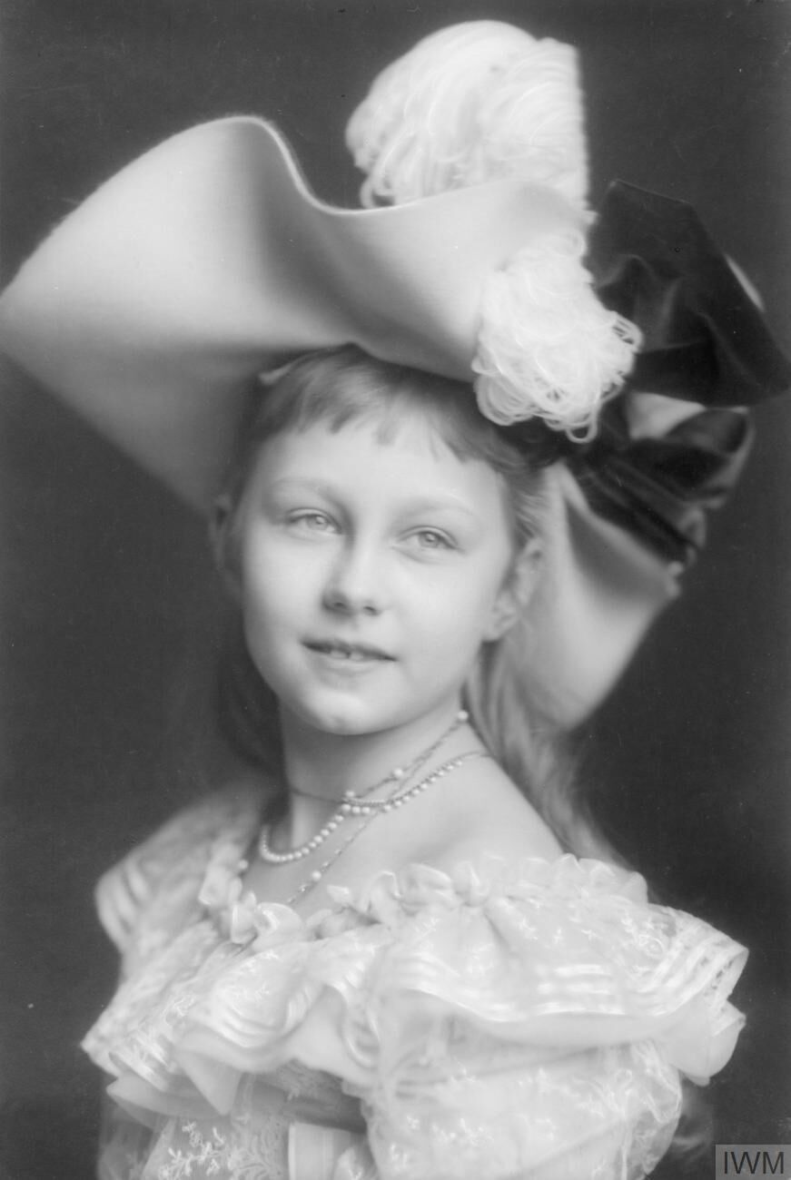 Germany Before the First World War 1890 - 1914 Head and shoulders portrait of the Kaiser's daughter, Crown Princess Viktoria Luise, aged 10. The Princess is wearing a large hat decorated with ostrich feathers.